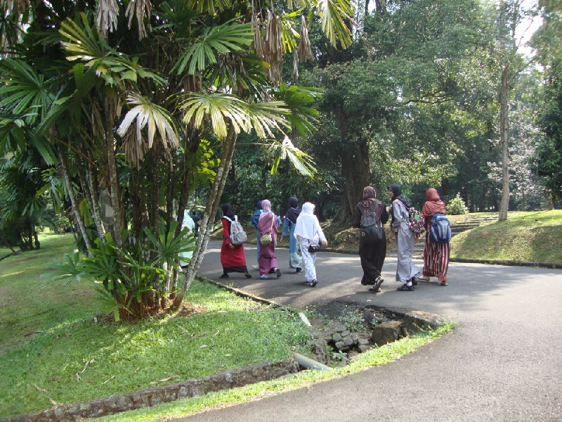 Muslim sundanese women in Bogor Botanical Garden